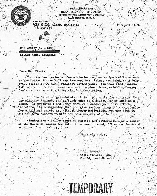 Wesley Clark's westpoint acceptance letter